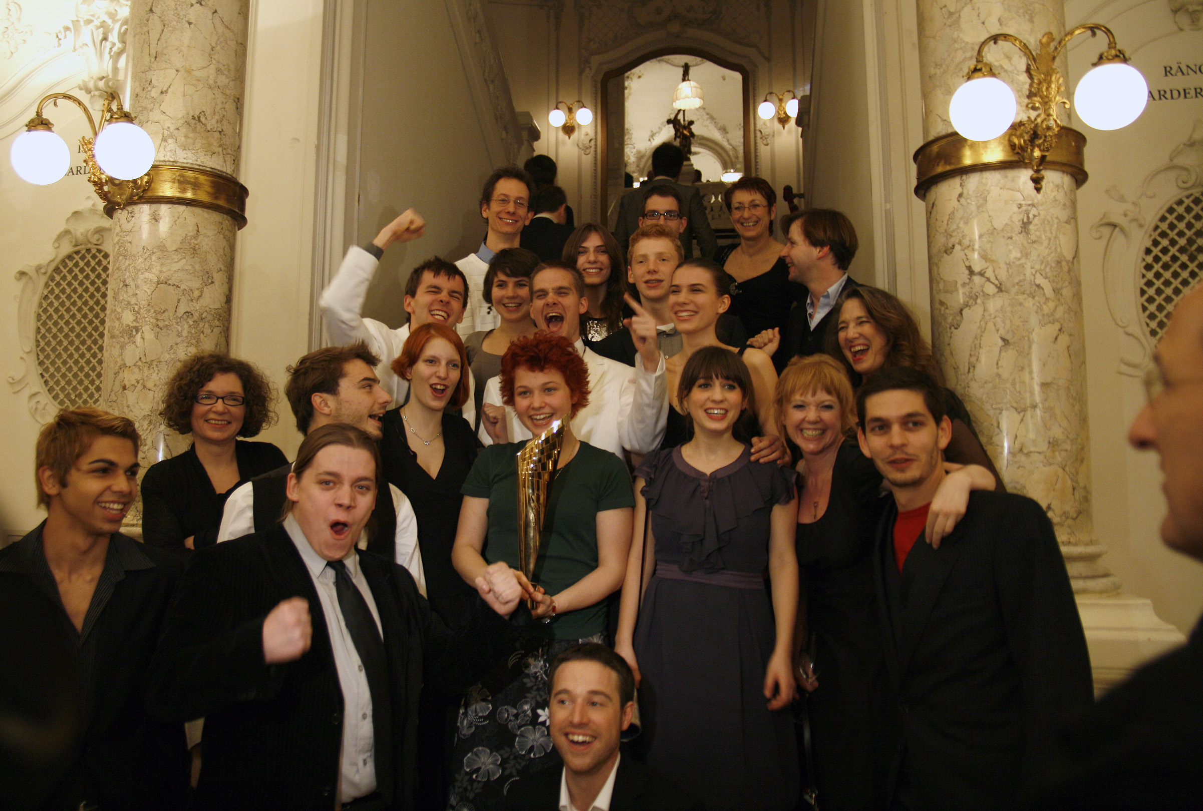 New Space Company and Dschungel Wien with Volker Schmidt, winners of the Nestroy-Theaterpreis 2008 in the category 'Best Off-Theatre Production' (Etablissement Ronacher, Vienna).